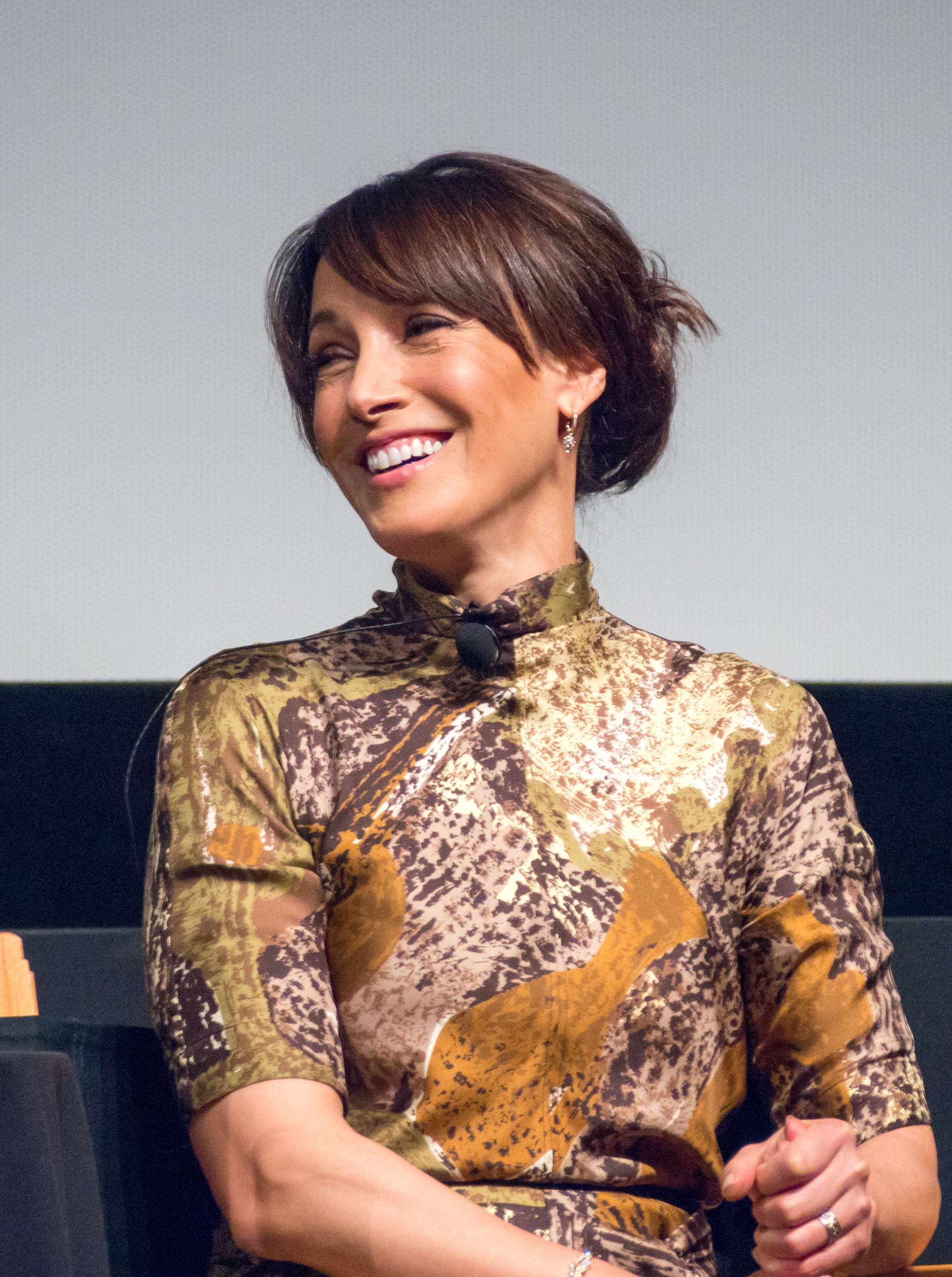 Jennifer Beals during the In the Soup (1992) panel at the 2018 Tribeca Film Festival.